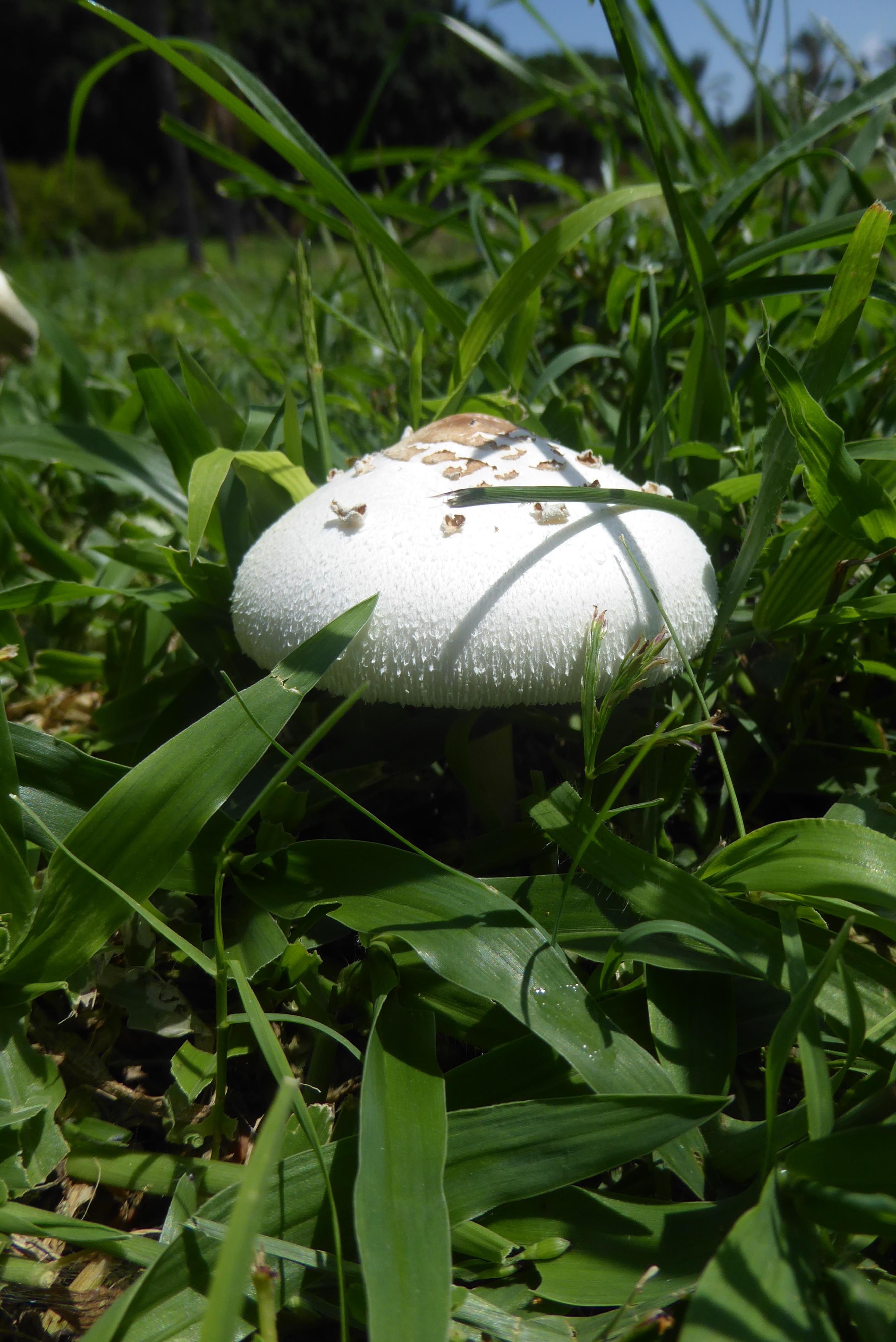 Edith Wolfson Park